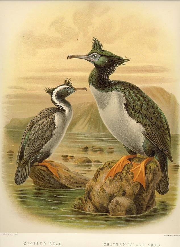 .Spotted Shag/Parekareka (Phalacrocorax punctatus) and Pitt Island Shag (Phalacrocorax featherstoni).